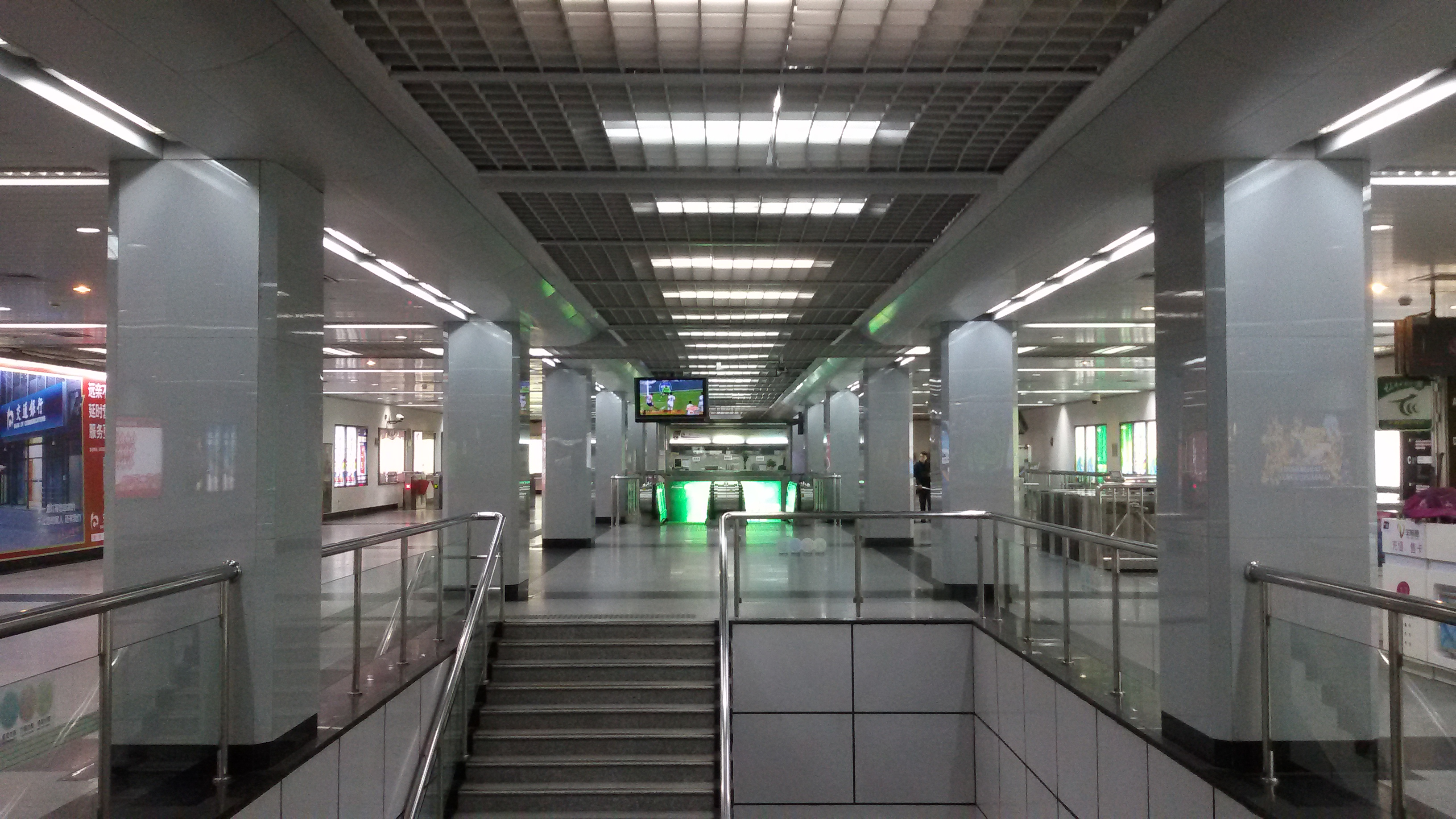 Station Concourse for Ximenkou Station in Guangzhou Metro.